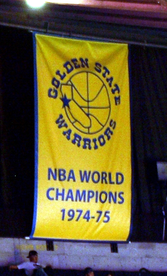 The Golden State Warrior's 1975 championship banner at Oracle Arena.